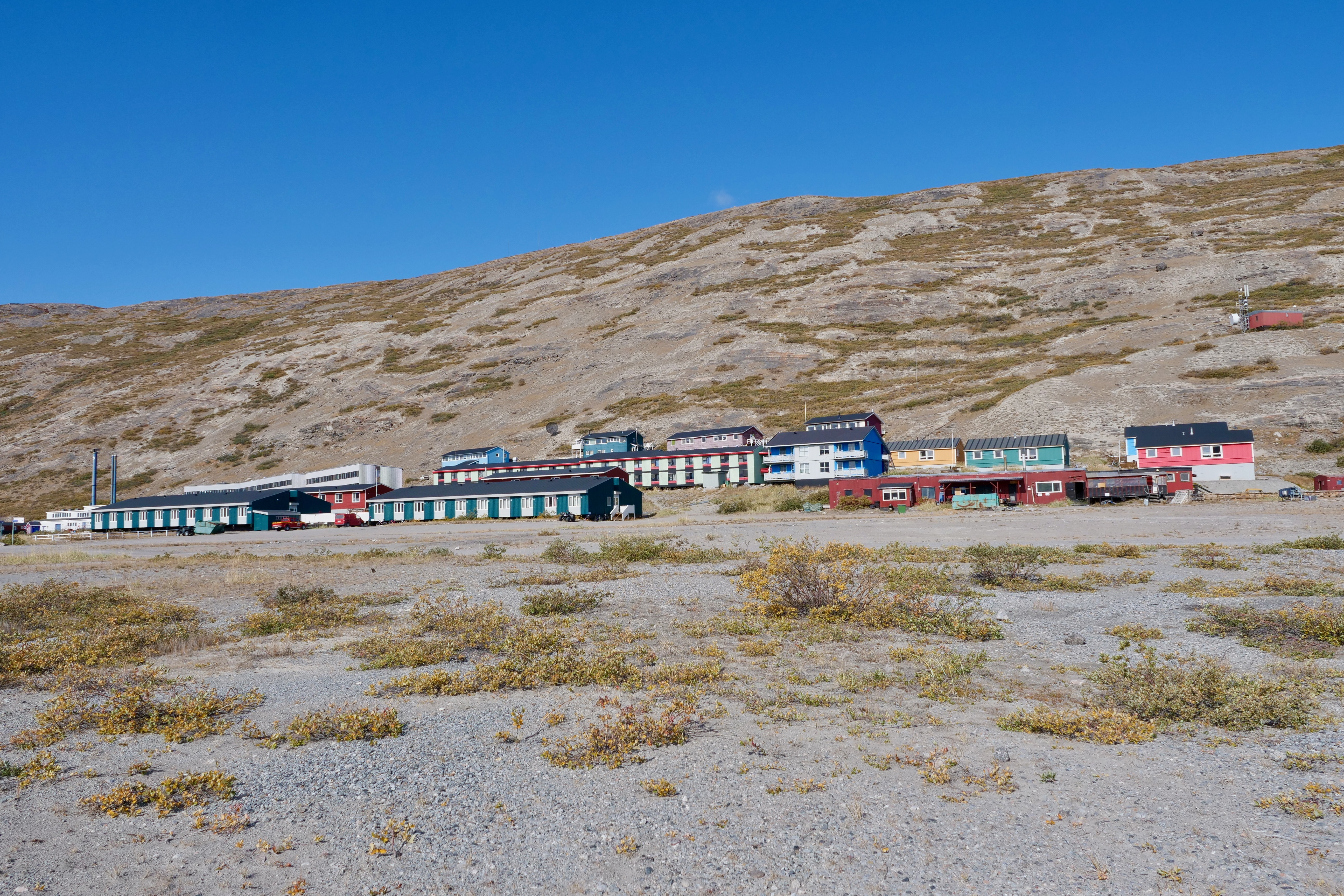 A front view of Kangerlussuaq, Greenland.